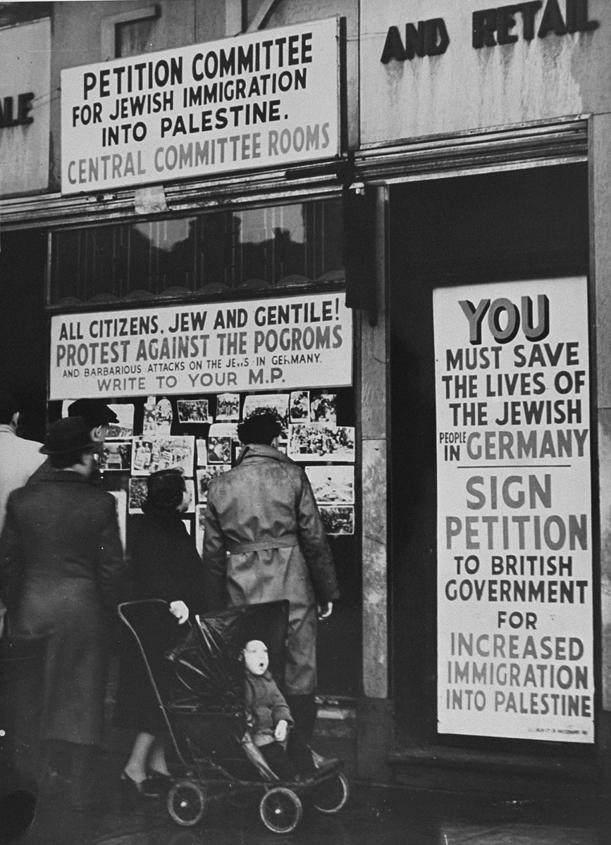 See title